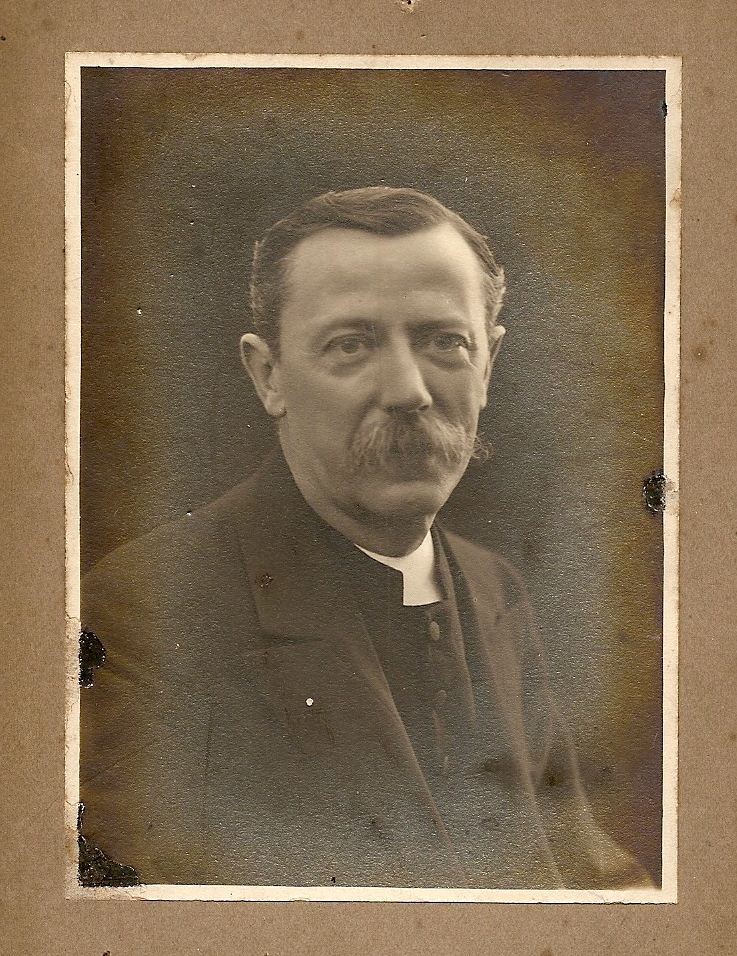 William Thomas Brown (1821-1899) missionary. He entered the service of the Wesleyan Methodist Missionary Society in Hatton Garden, London; cared for Spanish sailors visiting the port of London and learnt Spanish; requested the Missionary Committee to send him to Spain; lay agent at Barcelona, employed in educational and evangelistic work; missionary to the Balearic Isles, 1879-1888; returned to England owing to ill health; served at City Road, London, 1888; Brighton, 1890; died, 1899.